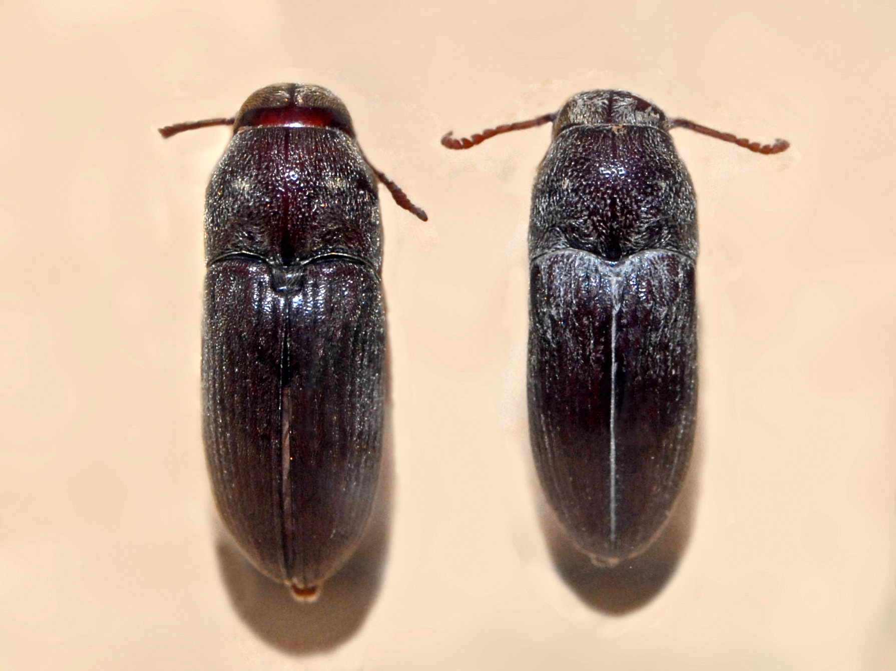 Euryostus reichei from New Guinea. Mounted specimen